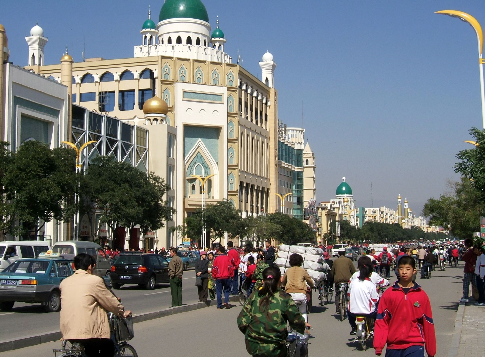 Hohhot, Inner Mongolia, China The Muslim Quarter. Looks a bit like what Beirut used to be like, Hohhot, Inner Mongolia.